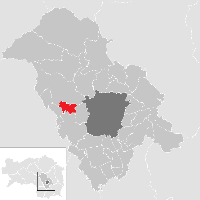 District Graz-Umgebung, Styria